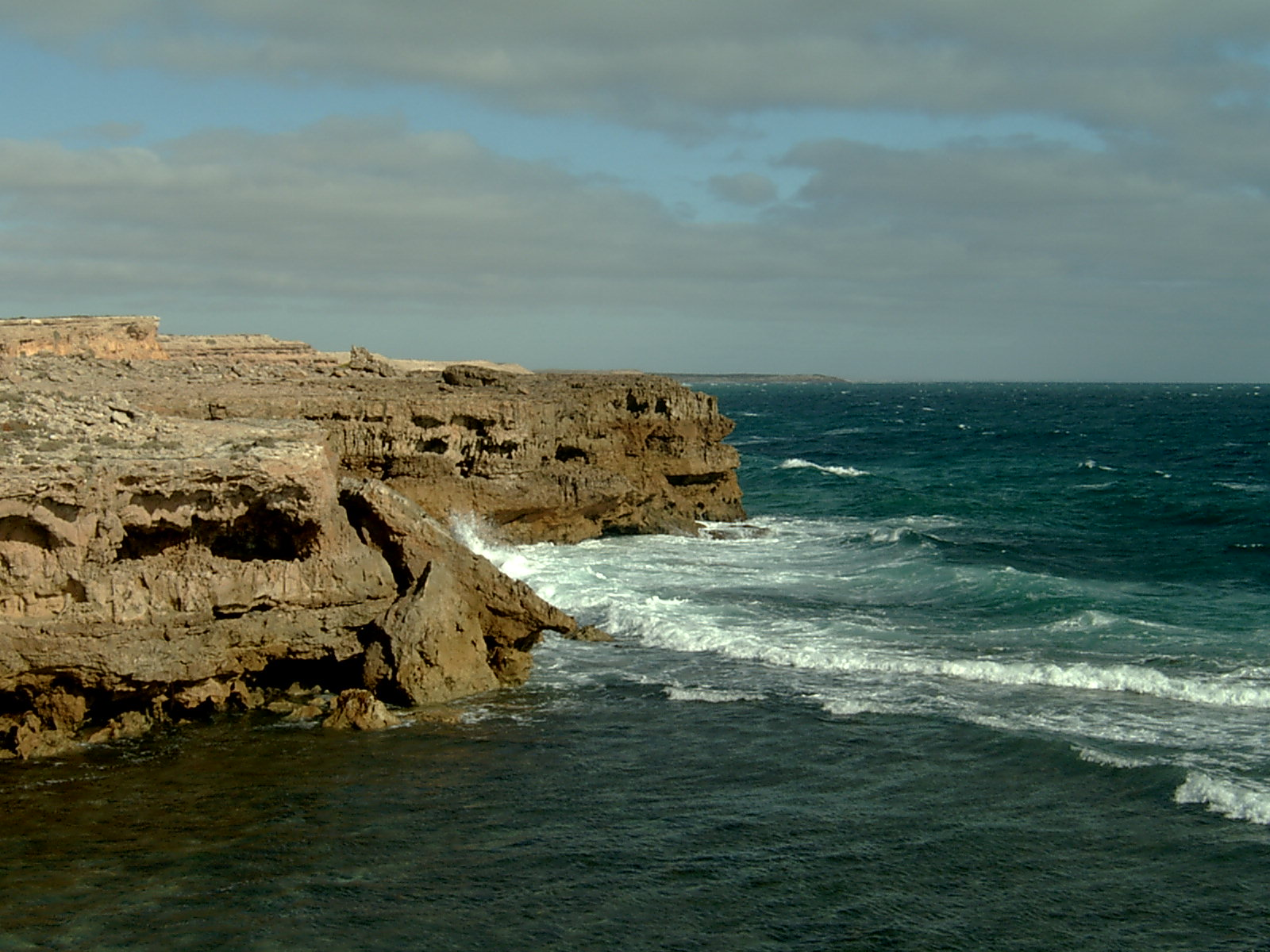 January 2007.